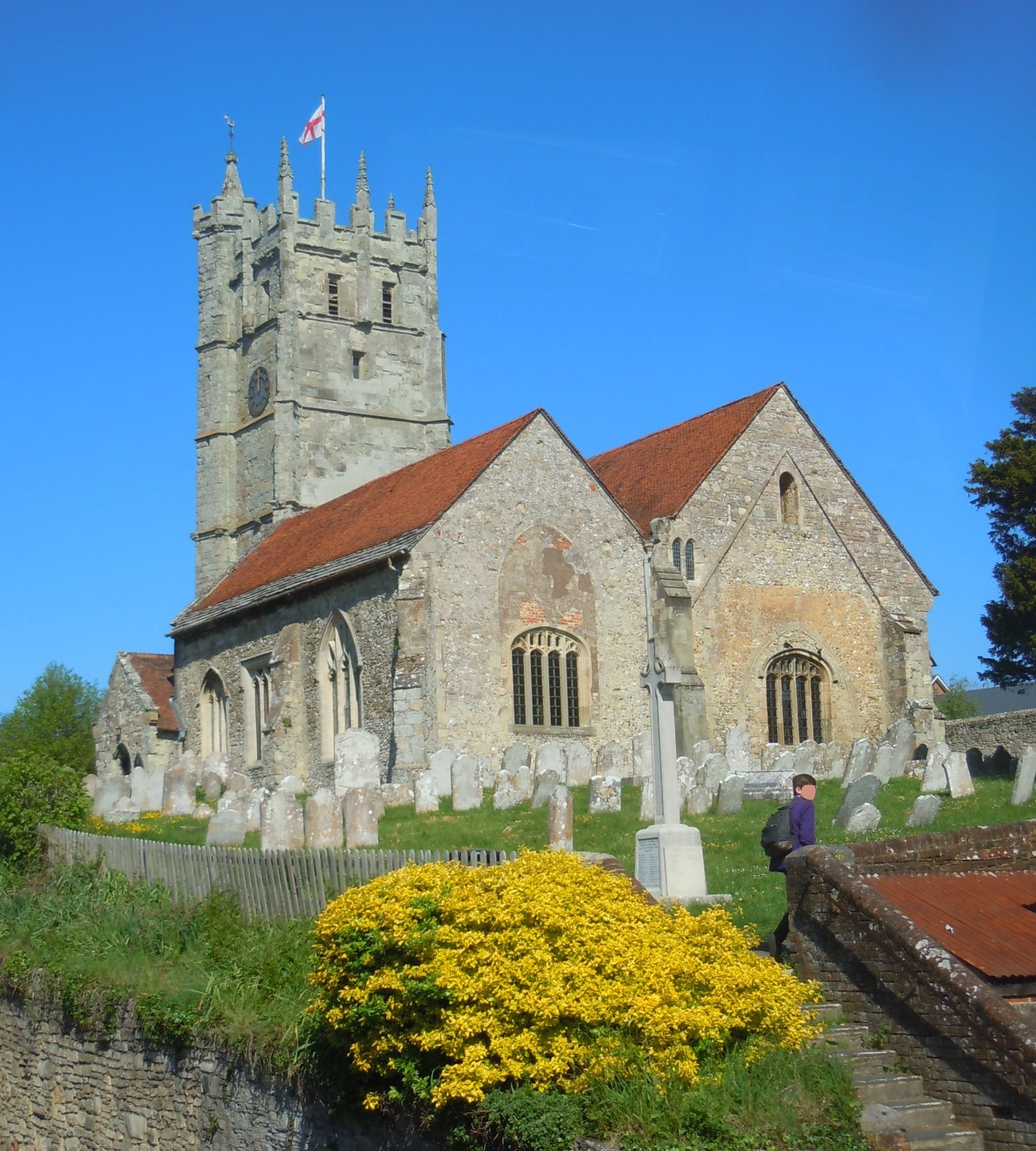 St Mary the Virgin's Church, High Street, Carisbrooke, Isle of Wight, England. The Anglican parish church of the village of Carisbrooke (now part of the Newport conurbation).